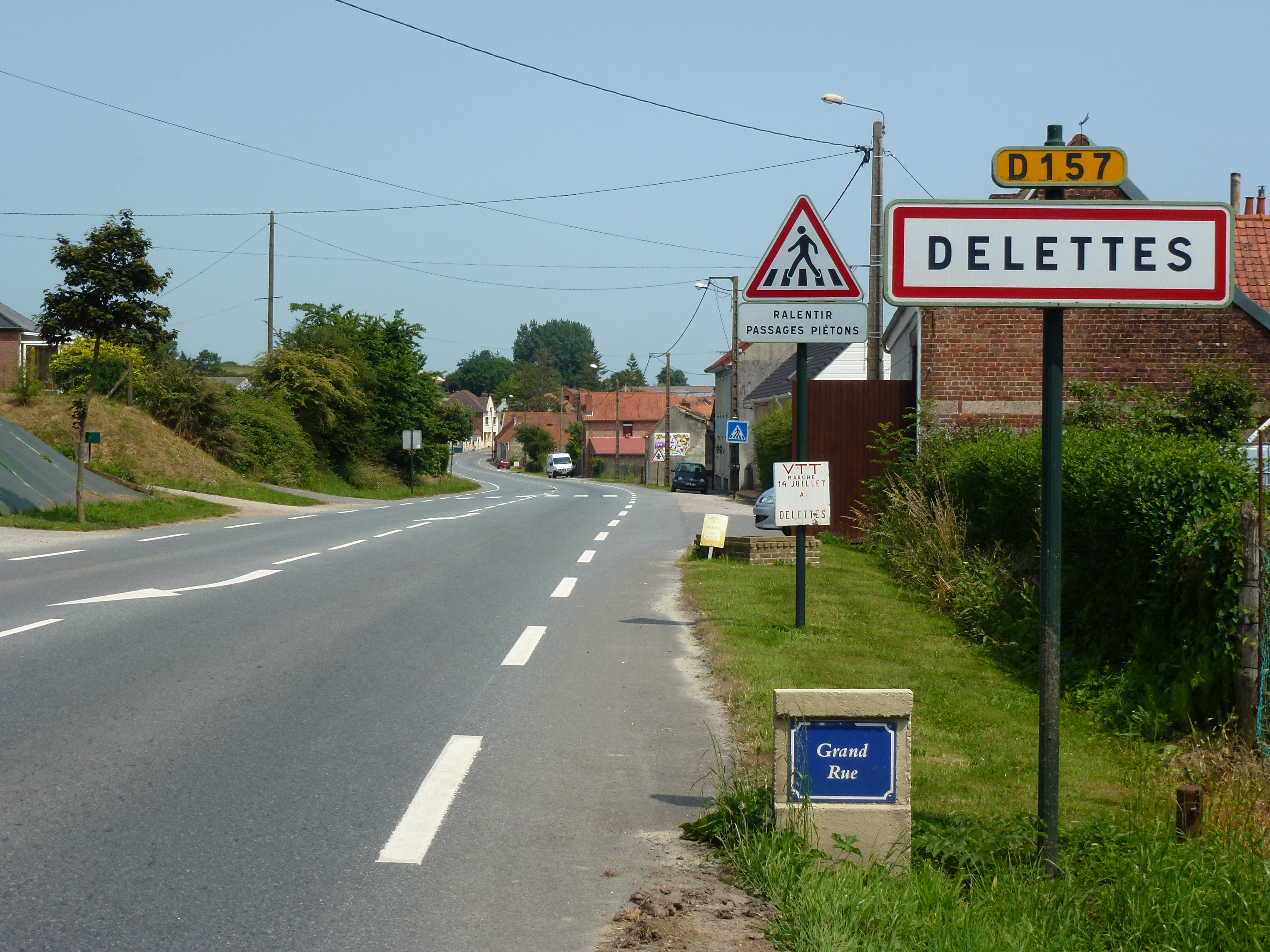 Delettes (Pas-de-Calais) city limit sign Delettes